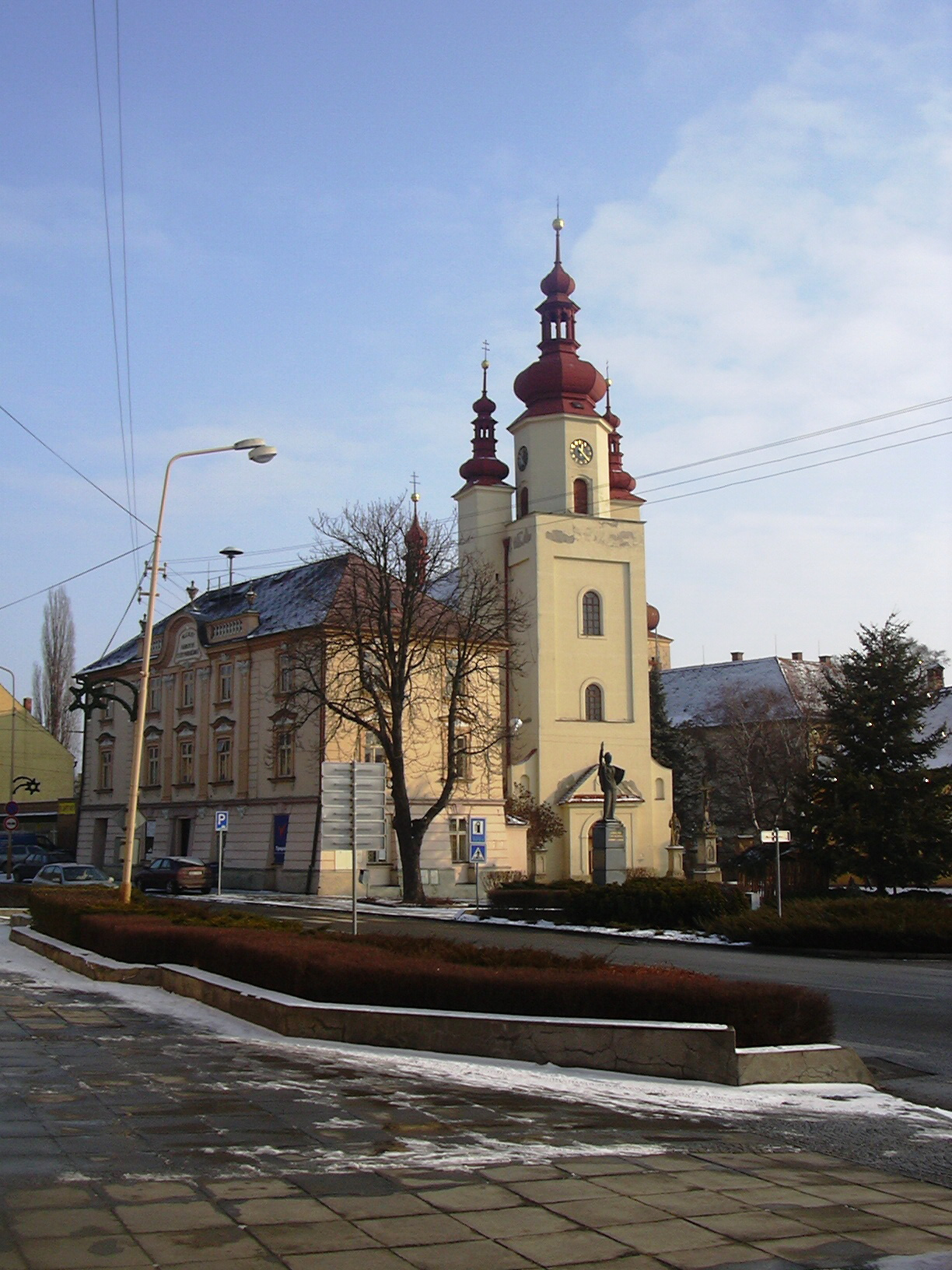 St Andrew church in Ivanovice na Hané, Vyškov District, Czech Republic